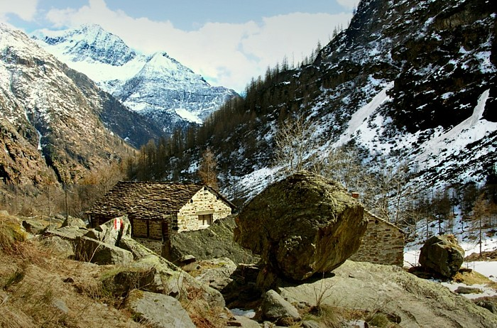 Alta Valsesia Picture taken and edited by user user:Idéfix april 2005